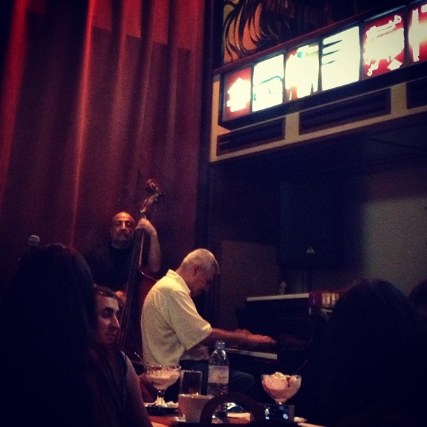 Armenian maestro jazz pianist Levon Malkhasyan